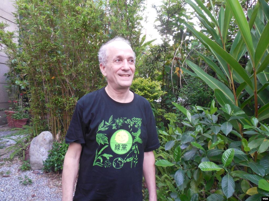 Robin J. Winkler, Green Party Taiwan candidate for the Legislative Yuan in the 2016 elections.